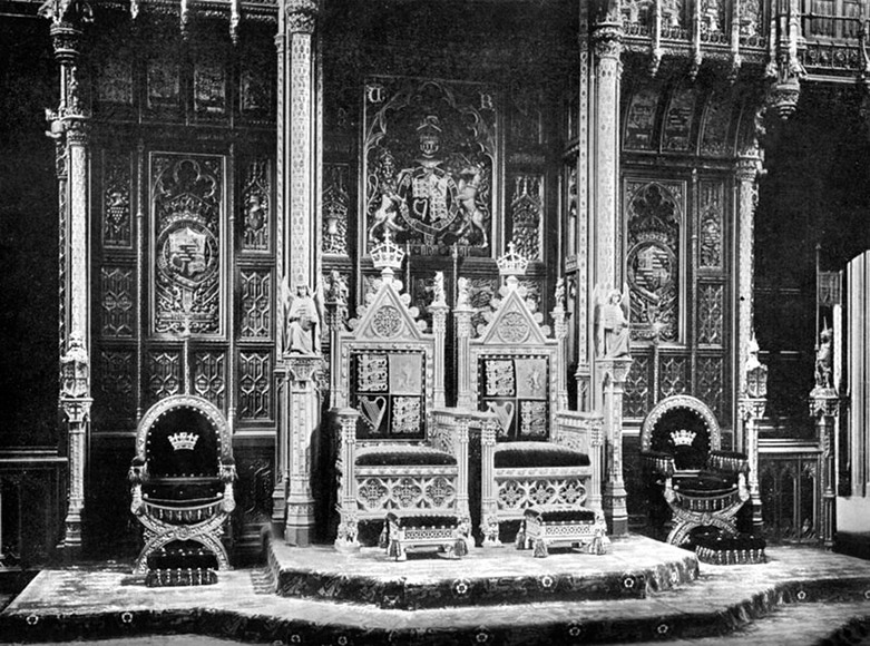 A black and white photo of the royal thrones in the House of Lords, Palace of Westminster, taken c. 1902 by the MP Sir John Benjamin Stone for the Photographic Record Society's collection in the British Museum.